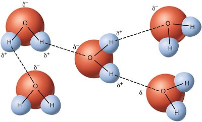 hydrogen bond